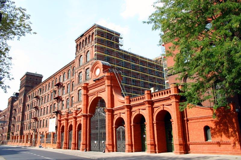 Ogrodowa Street, Lodz, Poland. Main entrance to the Manufaktura Shopping Center. From with the permission of the author